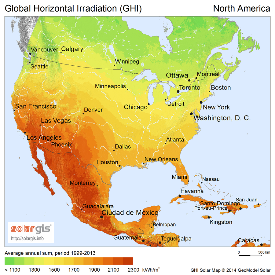 Solar Radiation Map: Global Horizontal Irradiation Map of North America, SolarGIS.